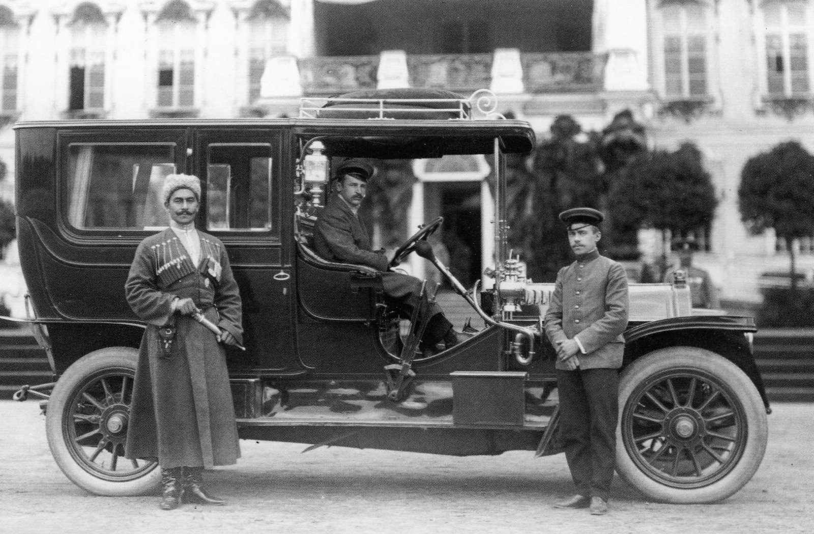 Tsarskoye Selo (Russia), the Imperial "Benz". Behind the wheel sits chauffeur Adolf Kegress. Tsarskoye Selo, at the main entrance of the Great Catherine Palace. September 9, 1911.